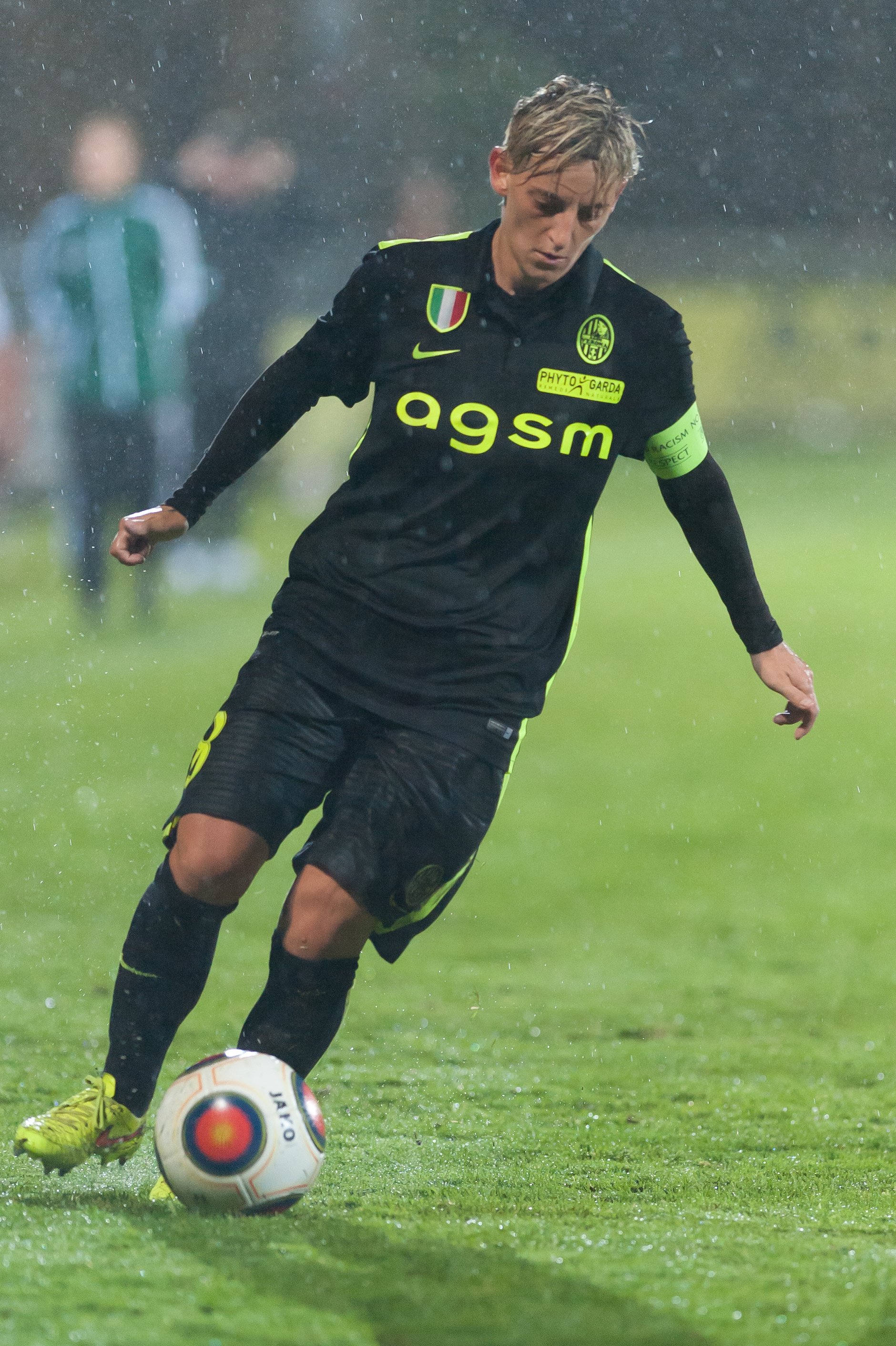 UEFA Women's Champions League FSK St. Pölten-Spratzern vs ASF CF Verona, St. Pölten, 2015-10-07